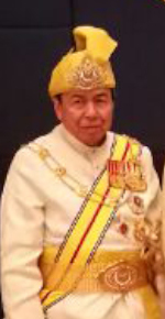 Y.A.D Tengku Dato' Setia Putra Alhaj taken photo with orang-orang besar Selangor